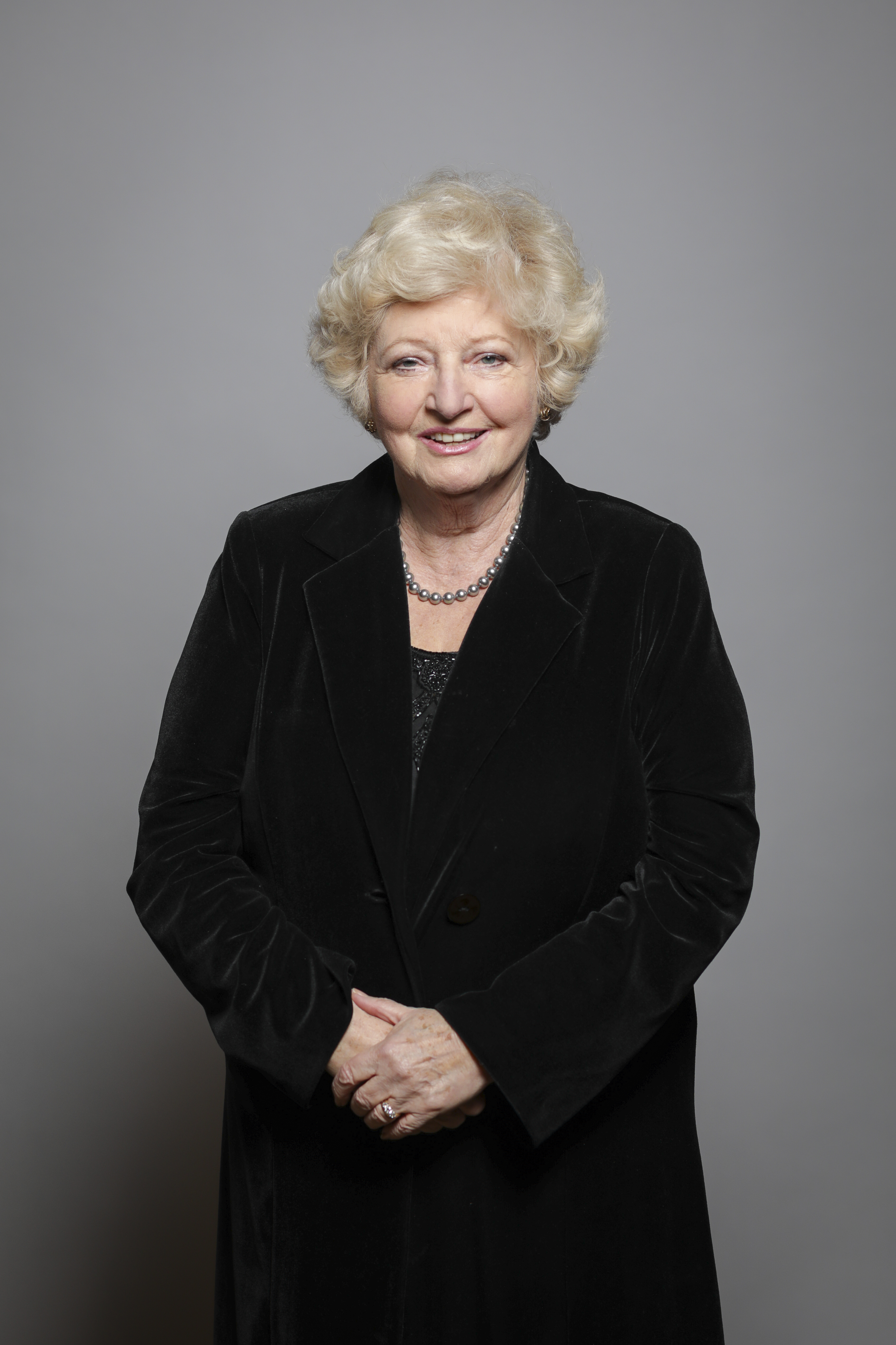 Official portrait of Baroness Murphy Full sized portrait of Baroness Murphy